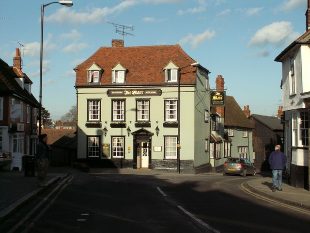 'The Starr' hotel This hotel is a timber-framed building that dates back to the 17th century.